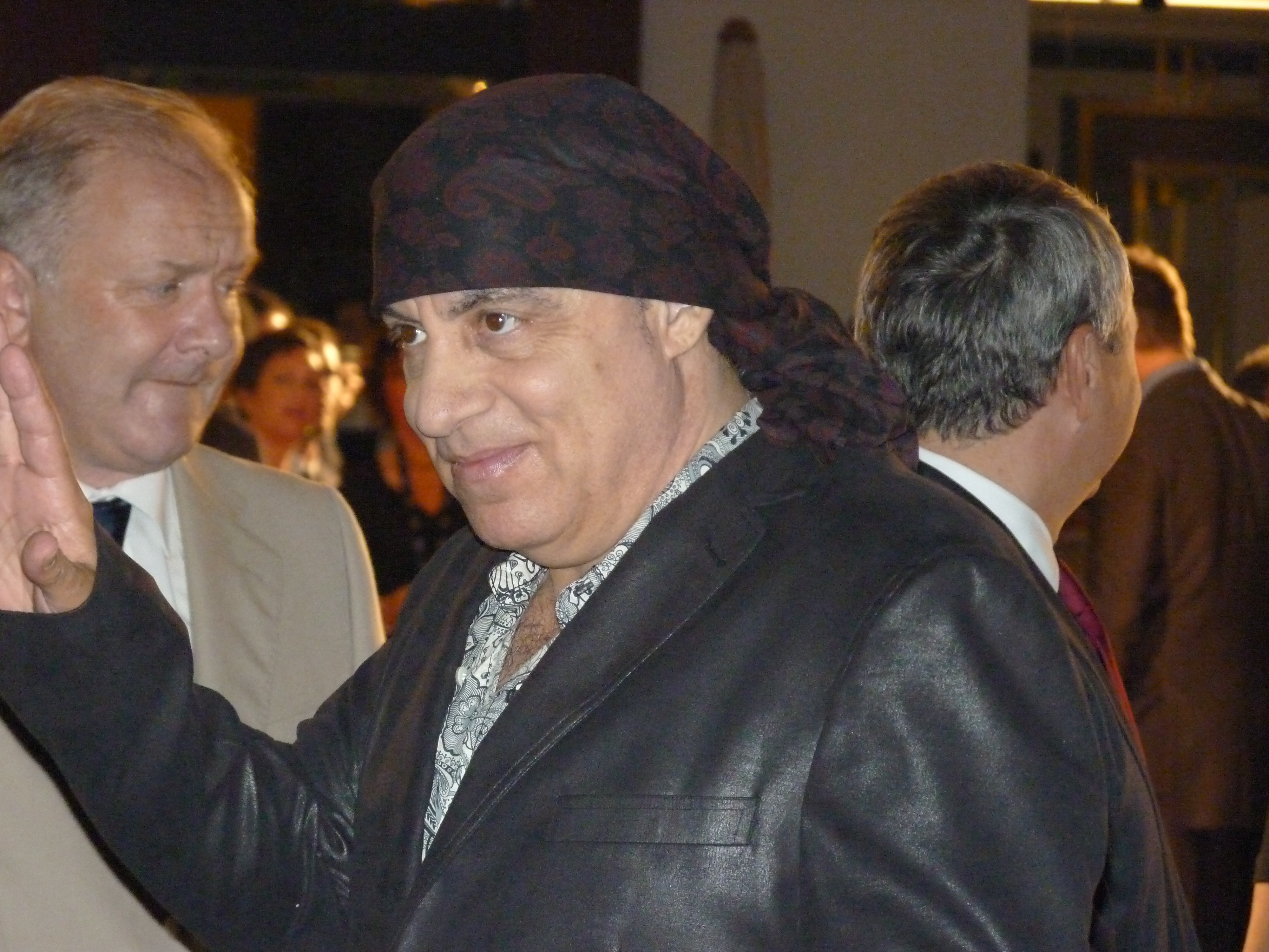 Steve Van Zandt at the 2011 MIPCOM, in Cannes.